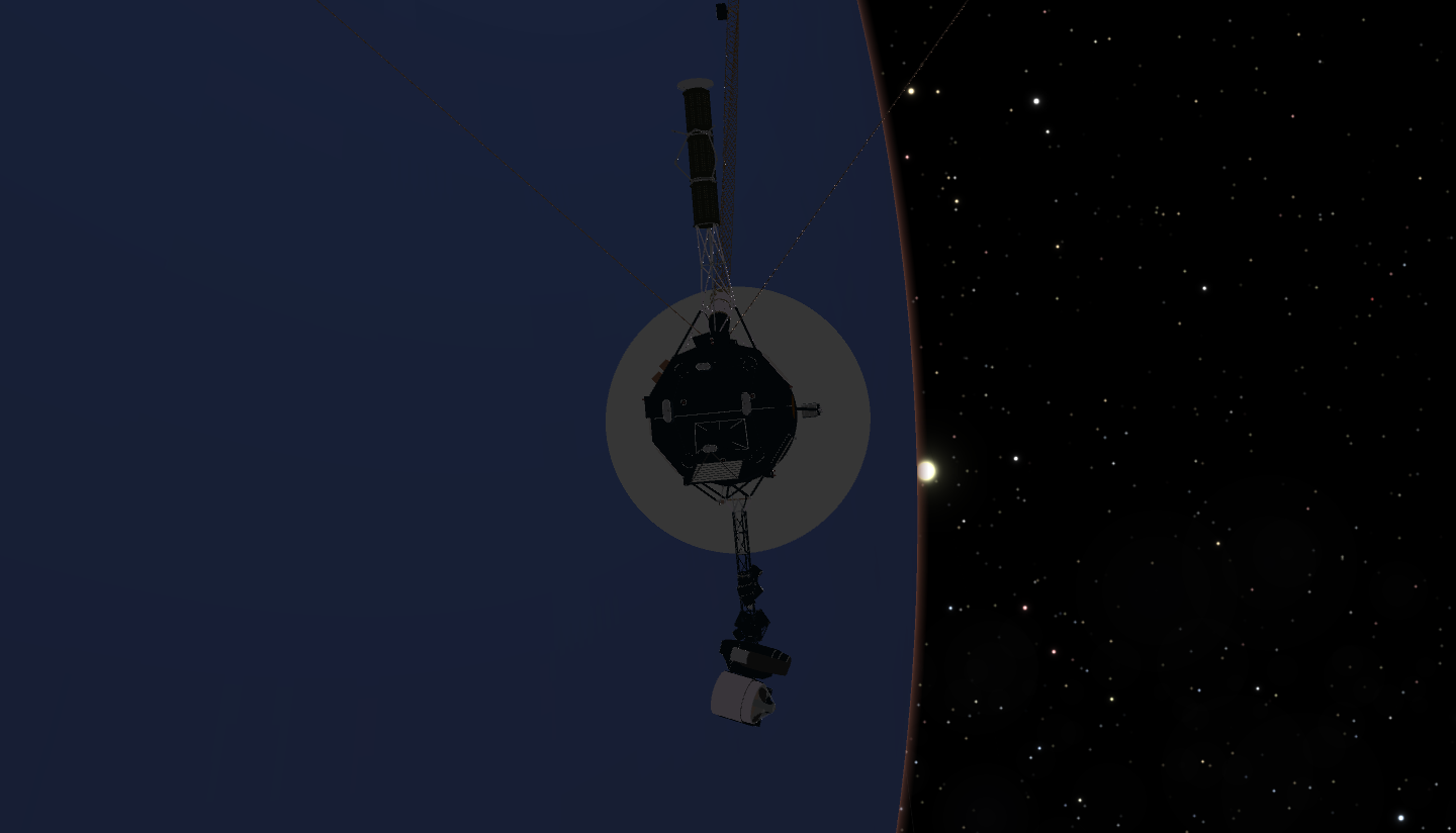 Voyager 2 passes Neptune in 1989, as it leaves the solar system.